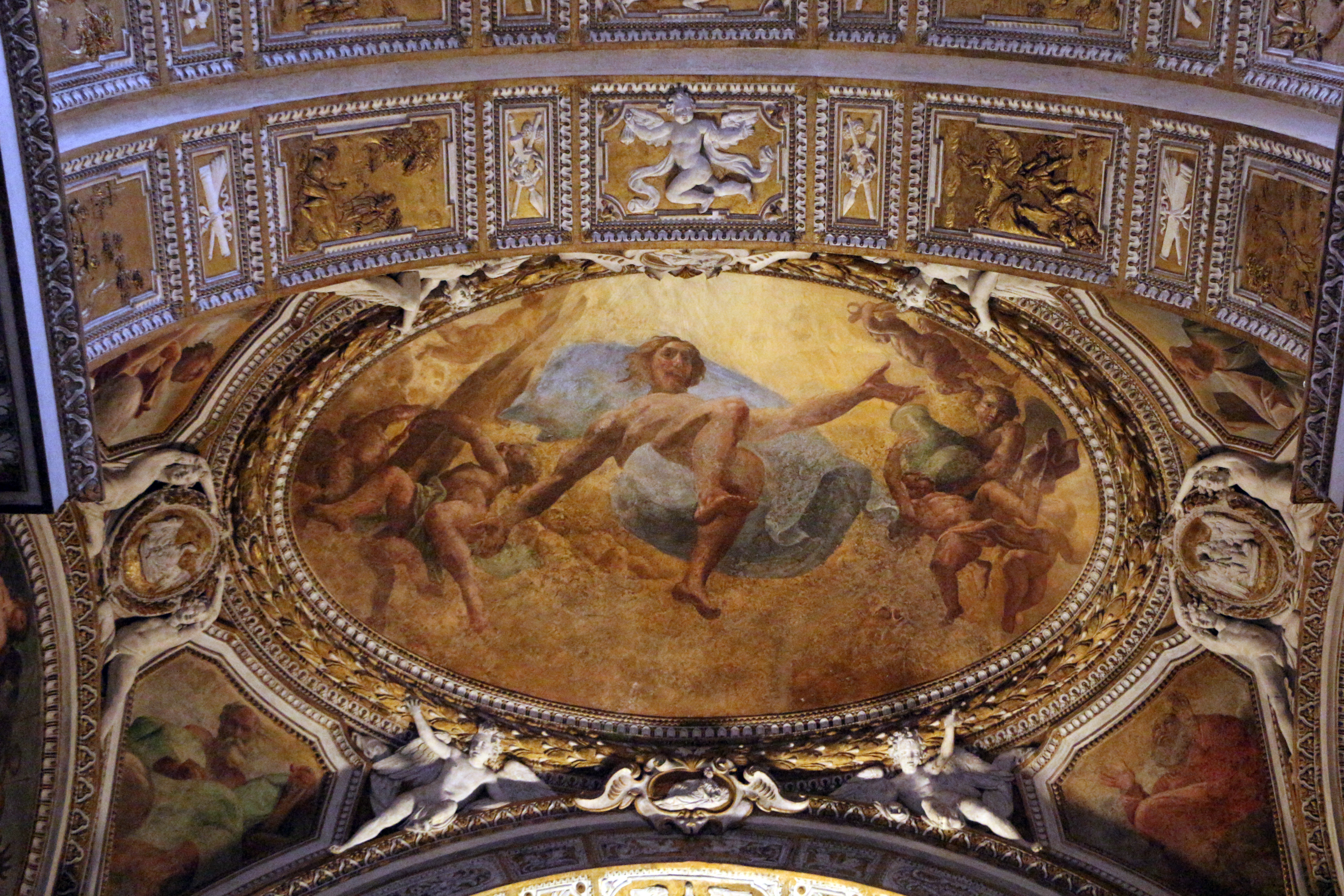 San Giovanni dei Fiorentini (Rome) - Interior